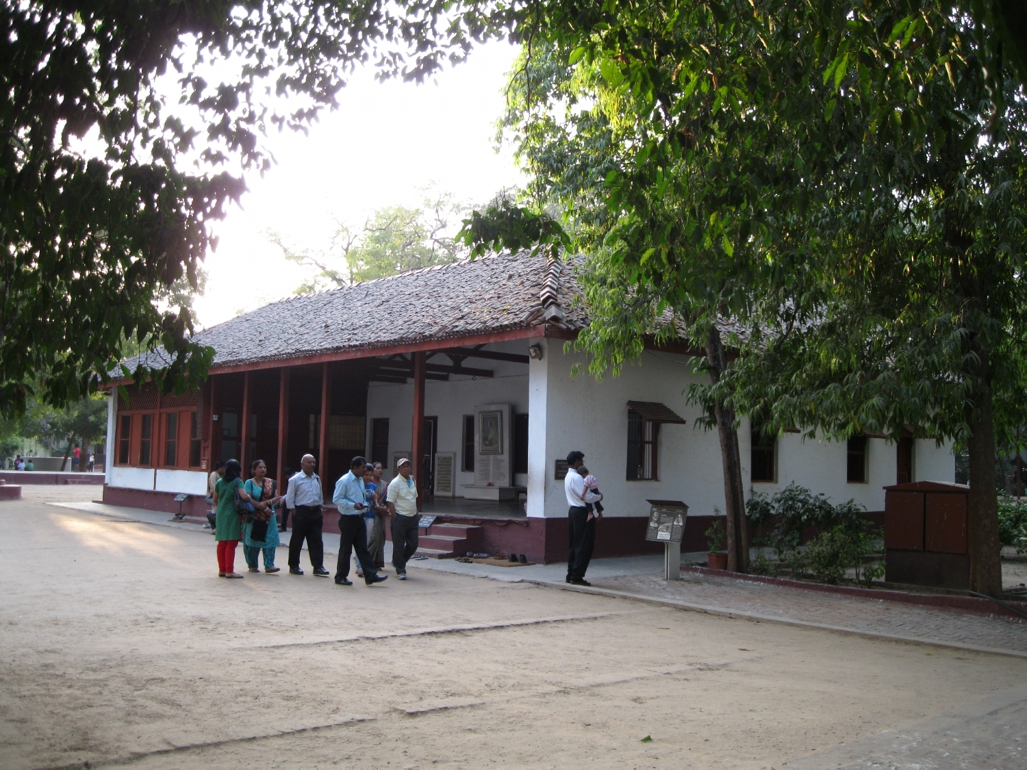 Sabarmati Ashram (also known as Gandhi Ashram, Harijan Ashram, or Satyagraha Ashram) is located in the Sabarmati suburb of Ahmedabad. This was one of the residences of Mohandas Karamchand Gandhi. Mahatma Gandhi spent approximately 12 years of his life here. This ashram is now a national monument established by the Government of India due to its significance for the Indian independence movement in the form of the Dandi March in 1930.